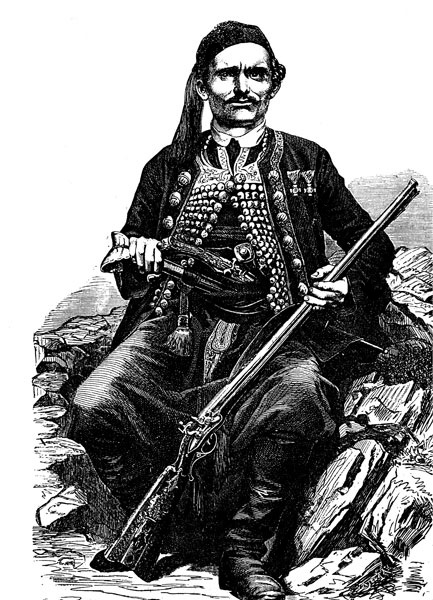 Србин из Лике